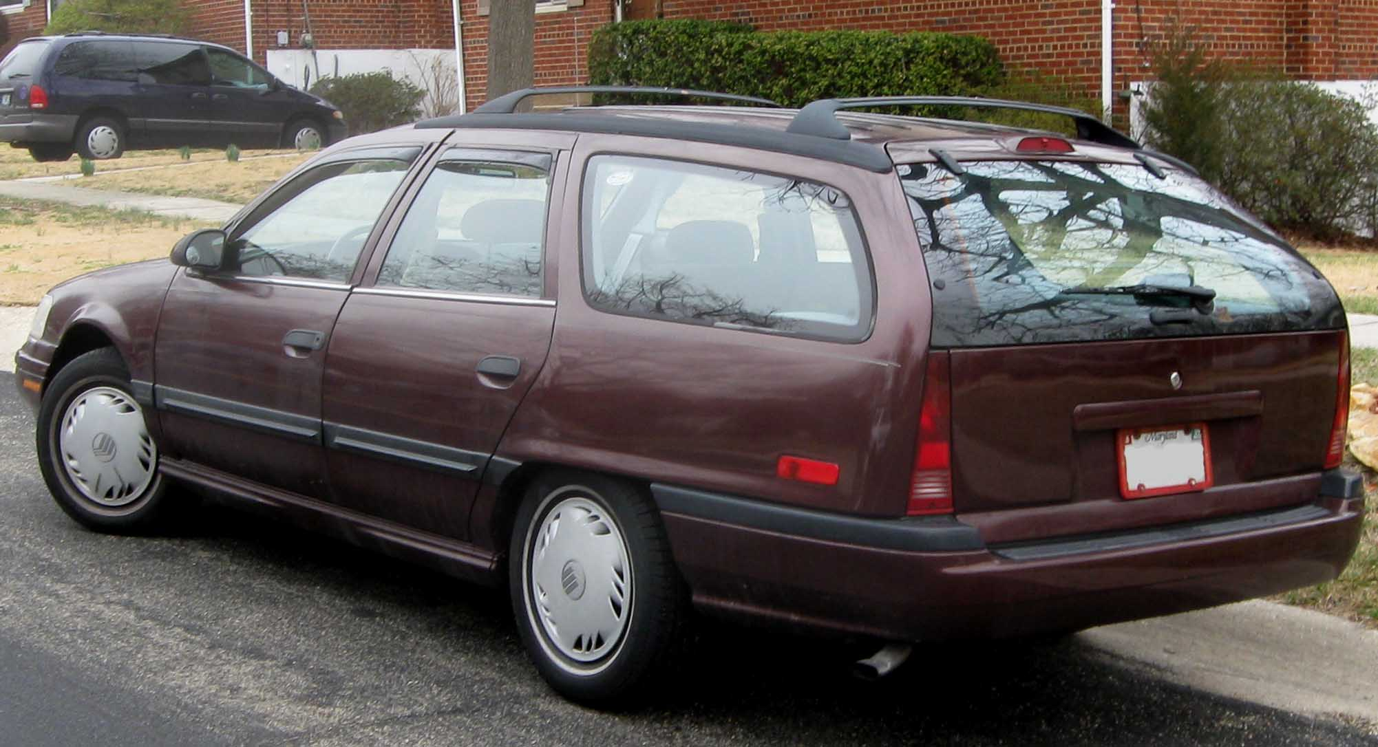 1989-1991 Mercury Sable photographed in Rockville, Maryland, USA.